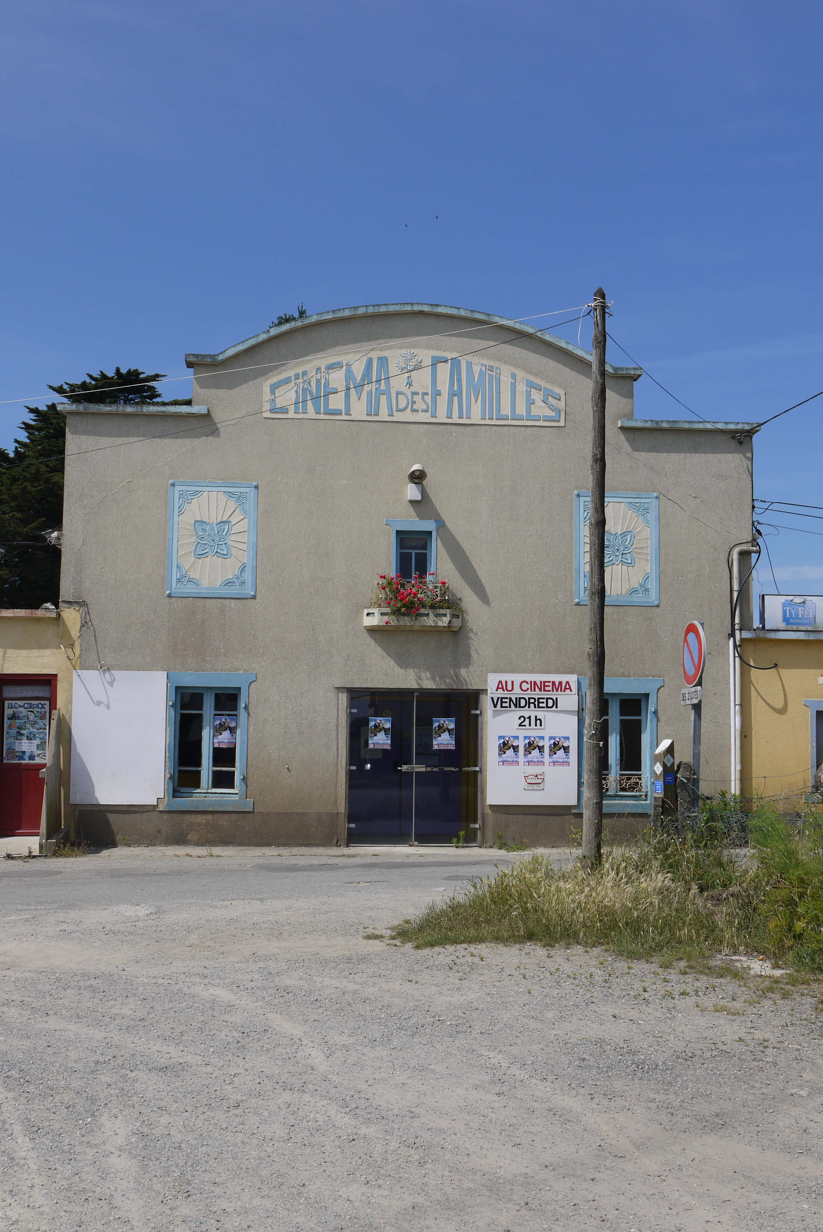 The cinéma des familles in Groix island.